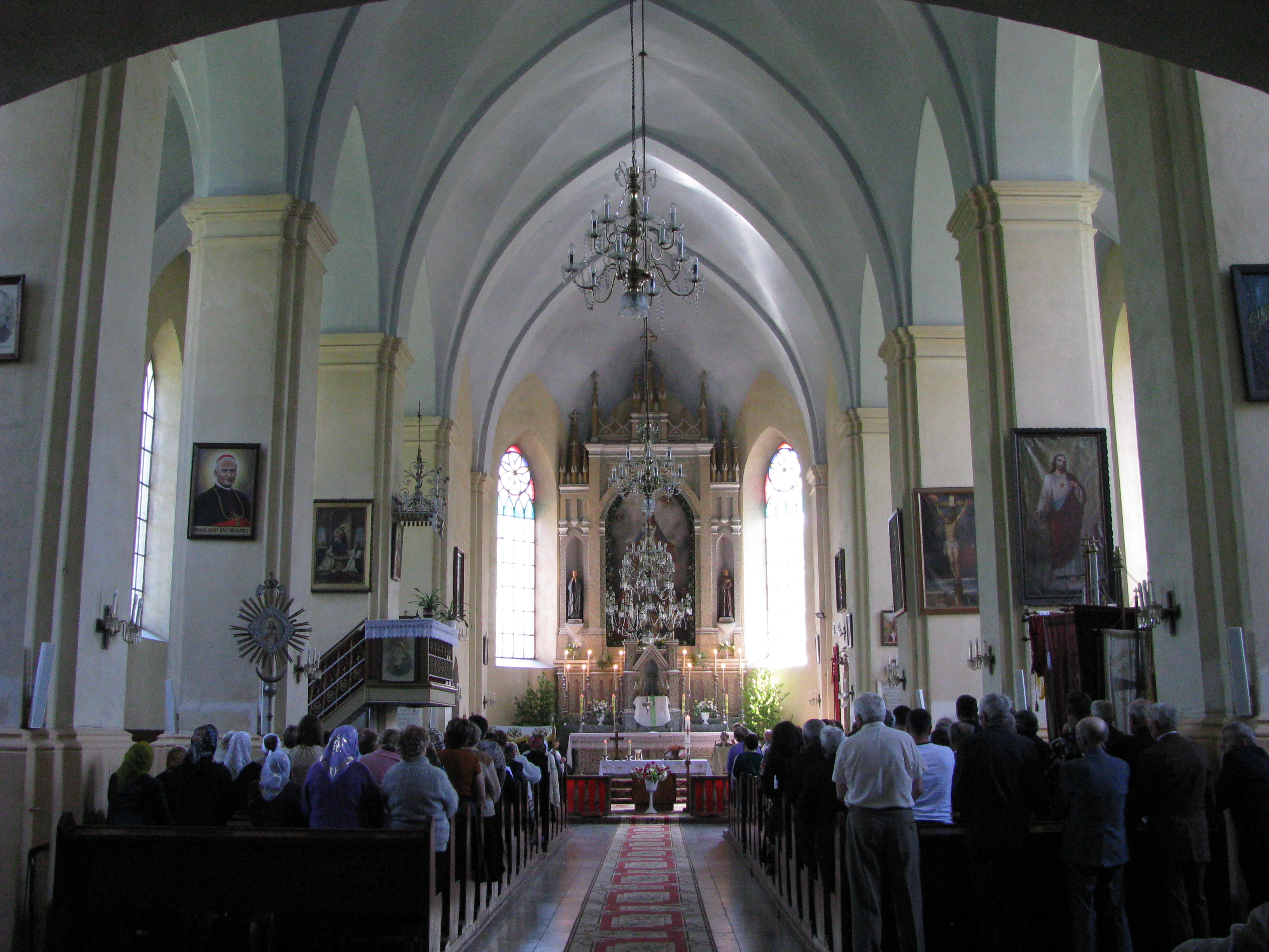 Беларуская (тарашкевіца): Касьцёл. в. Задарожжа This is a photo of Belarusian heritage monument. Reference number: 213Г000385 ( WLM)